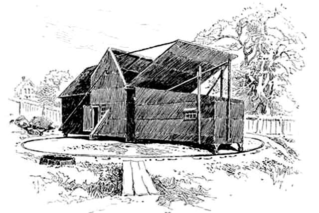 Exterior view of Edison's Black Maria film studio. Illustration von E. J. Meeker